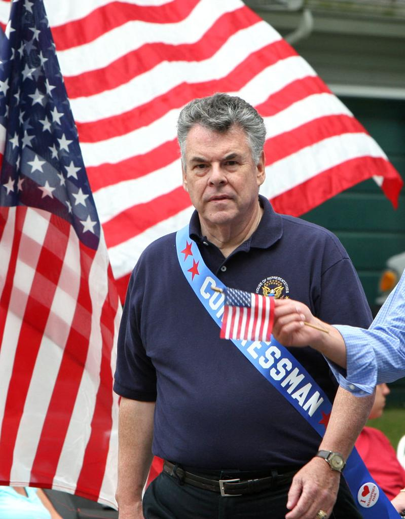 This image was made by Robert Swanson[1] of Congressman Peter T. King marching in the 4th of July 2007 parade in Massapequa Park, New York Cropped to remove watermark and borders by Ali'i on 13:45, 12 March 2008 (UTC)